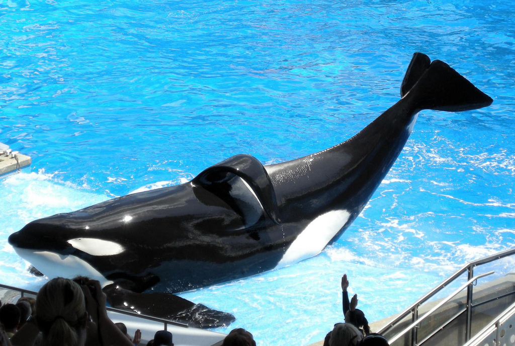 Tilikum as "Shamu" at SeaWorld Orlando.